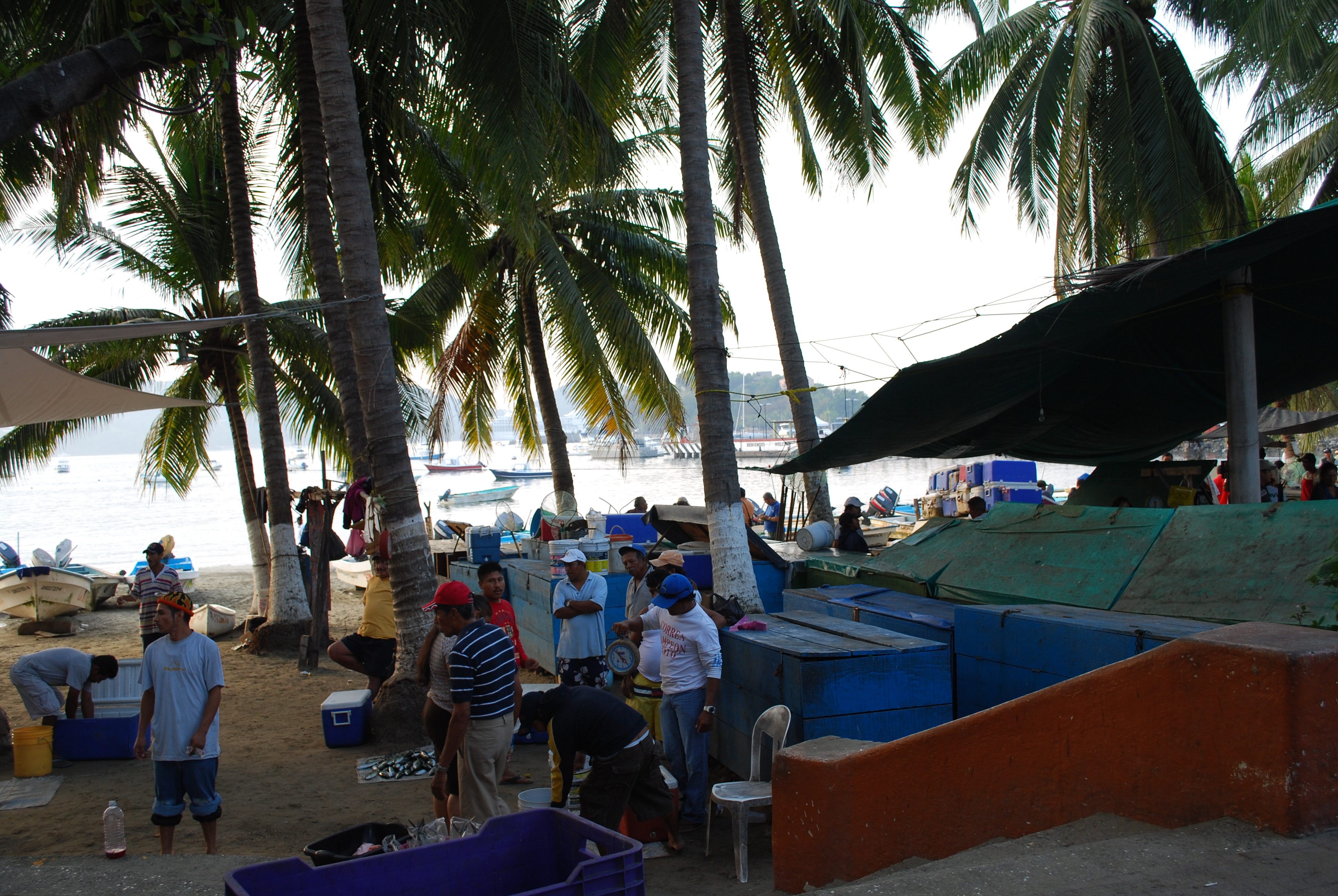 Fish market area in Zihuatanejo, Mexico